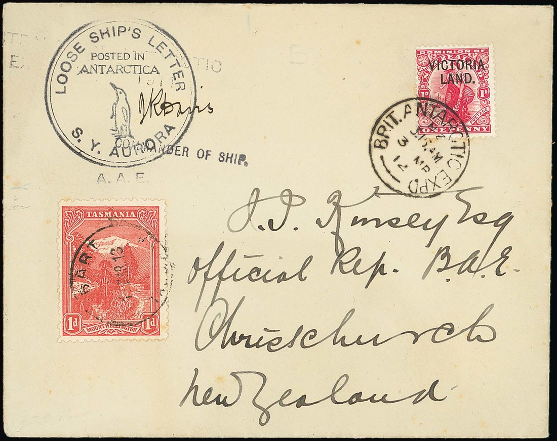 1912 (3 Mar.) envelope to New Zealand, bearing Victoria Land 1d. tied by "brit. antarctic expd" c.d.s., showing fine "loose ship's letter/posted in/antarctica/s.y. aurora/a.a.e." circular cachet, signature of J.K. Davis with "commander of ship" h.s. below, the envelope then travelled to Hobart where a Pictorial 1d. was applied and cancelled (17.3.13).